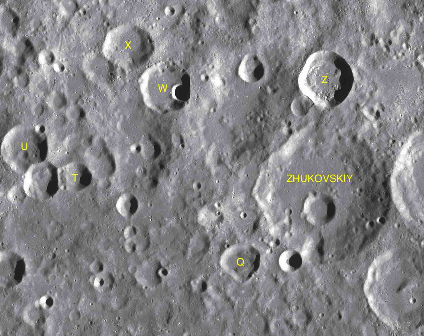 Parts of the charts LAC-68, LAC-69 used for the presentation